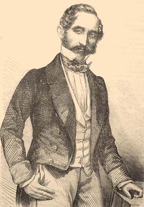 Endre Kovács Sebestény